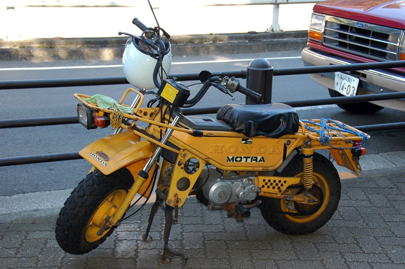 Tough Bike